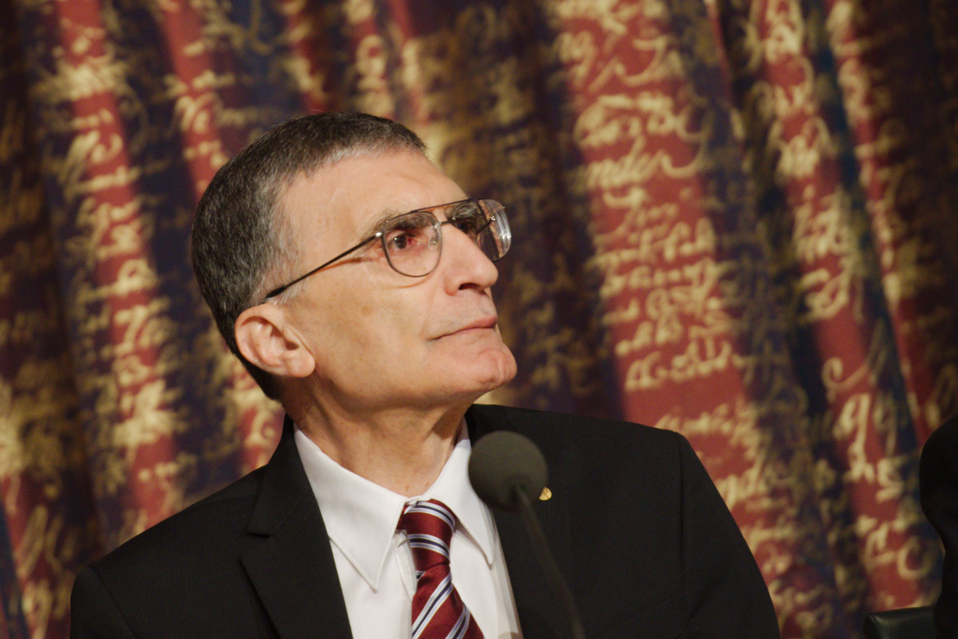 Aziz Sancar at a press conference at the Royal Swedish Academy of Sciences